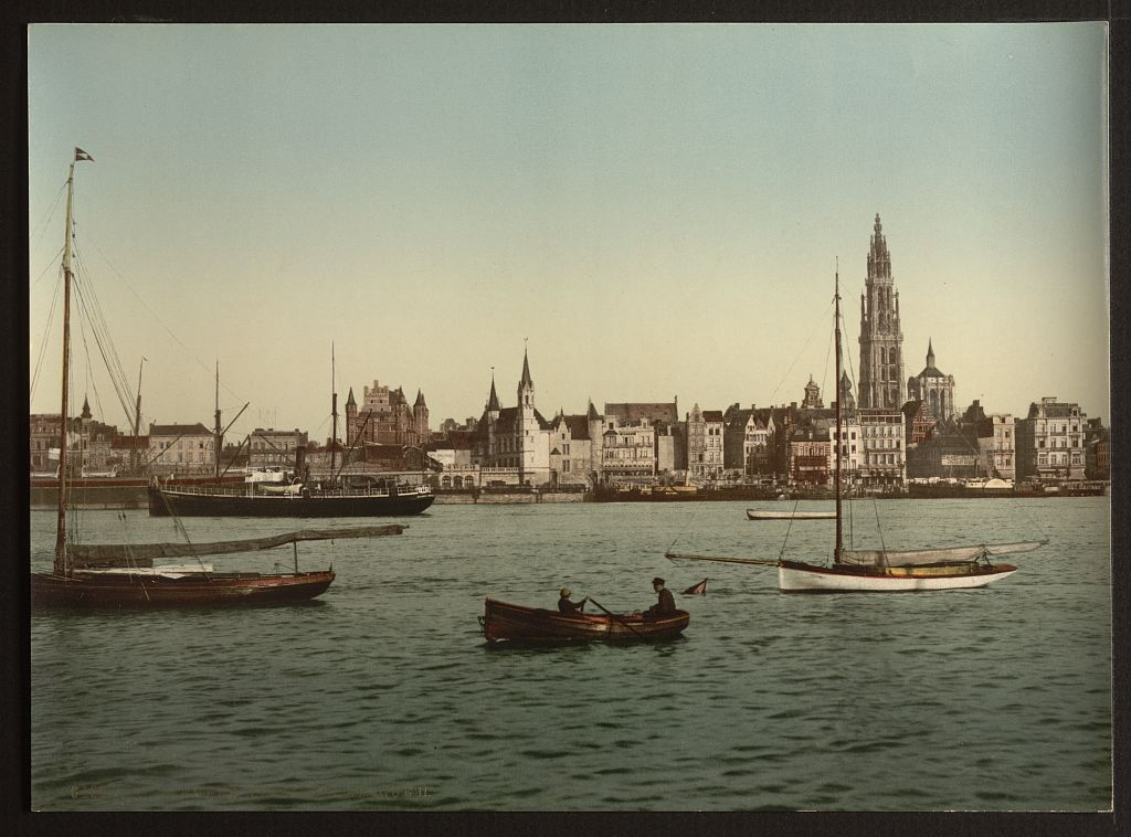 View on Antwerp, Belgium, from the left bank of the Scheldt (ca. 1890-1900)